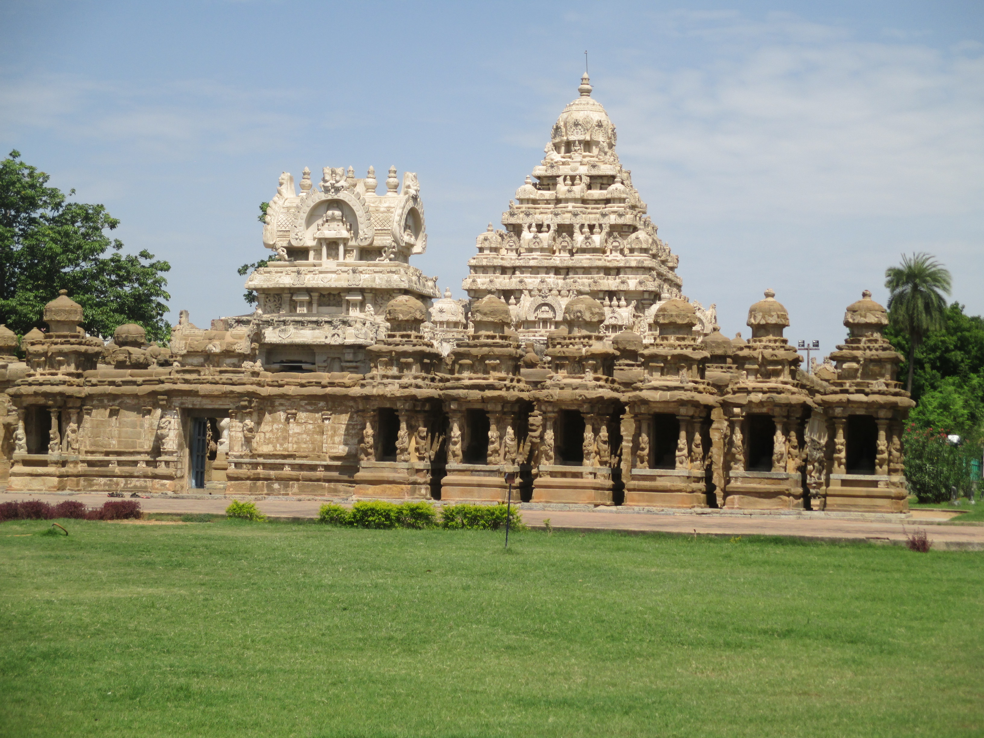 Kailasanathar temple